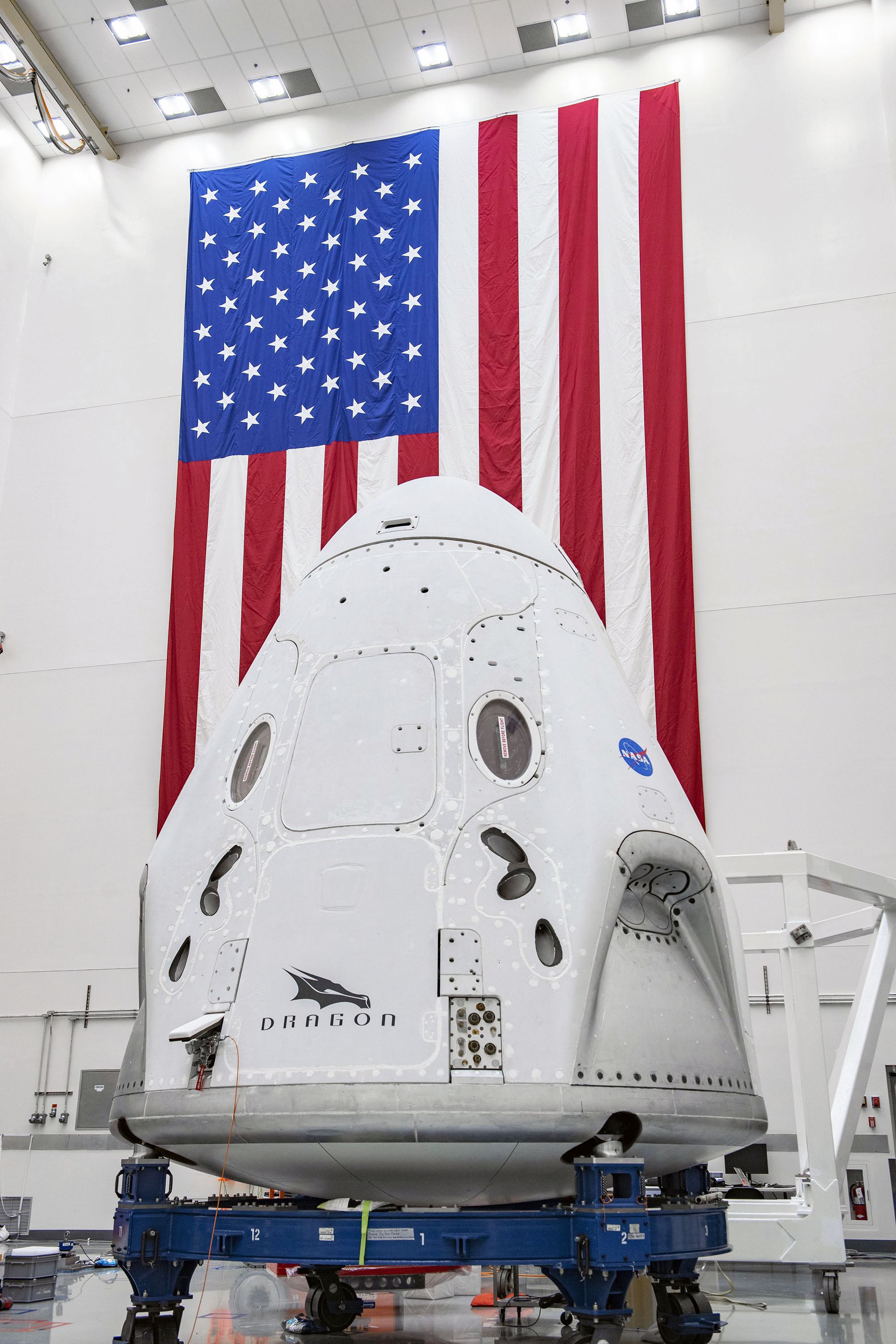 The SpaceX Crew Dragon spacecraft undergoes final processing at Cape Canaveral Air Force Station, Florida, in preparation for the Demo-2 launch with NASA astronauts Bob Behnken and Doug Hurley to the International Space Station for NASA’s Commercial Crew Program. Crew Dragon will carry Behnken and Hurley atop a Falcon 9 rocket, returning crew launches to the space station from U.S. soil for the first time since the Space Shuttle Program ended in 2011.